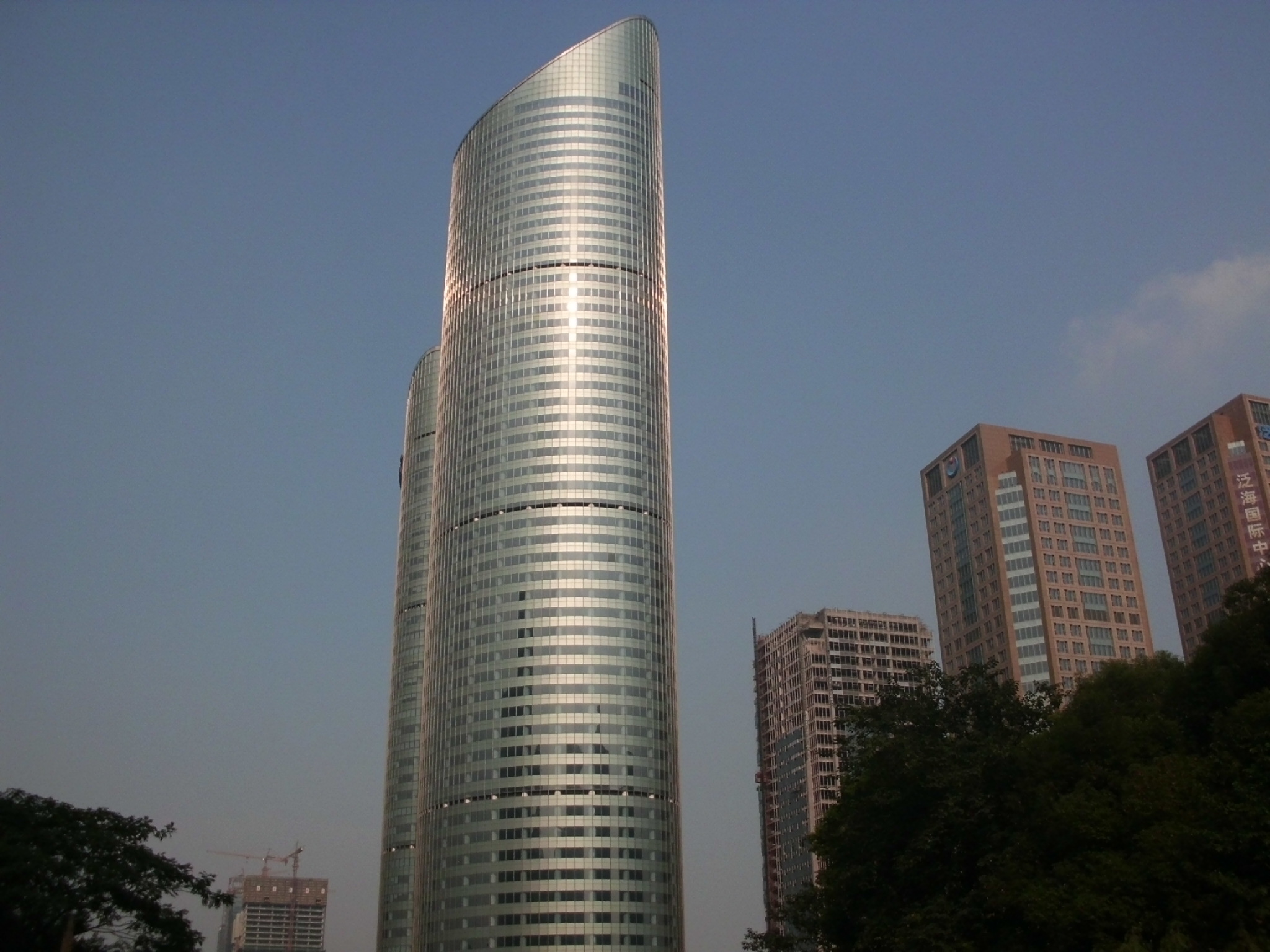 ZheJiang Fortune & Finance Center